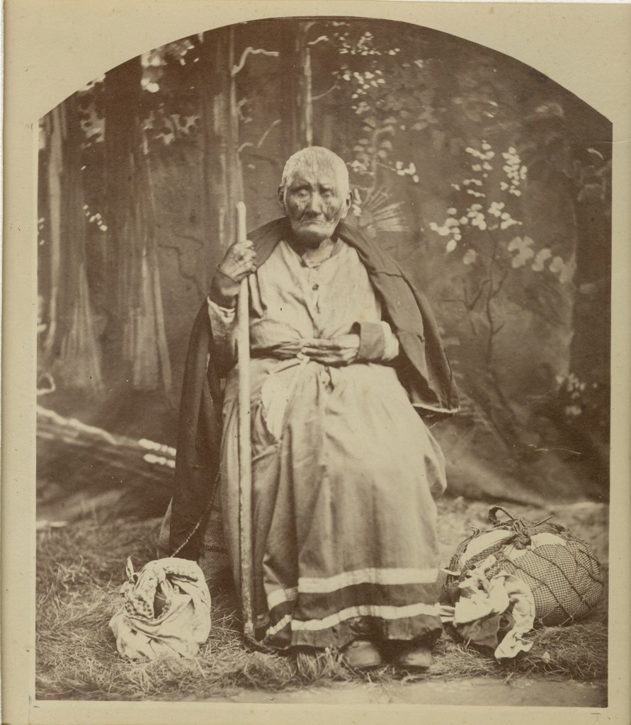 Rumsen Ohlone woman Omesia Teyoc. Born in 1791 and baptized at Mission San Carlos in Carmel, California. Died in 1883.